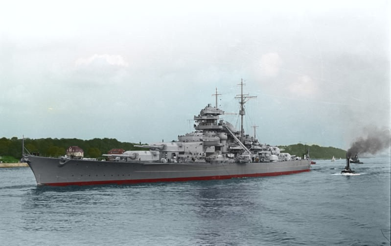 Information added by Wikimedia users.{| class="layouttemplate" style="margin: 0.5em auto; width: 100%; background-color: #f8f8f8; border: 2px solid #e0e0e0; padding: 5px; direction: ltr;" |- | |This is a retouched picture, which means that it has been digitally altered from its original version. Modifications: recolored by User:Eclipse.sx. |}